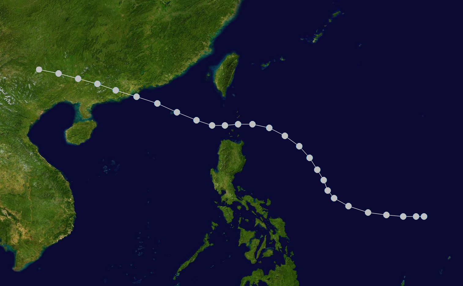 Track map of Hong Kong typhoon of the 1937 Pacific typhoon season. The points show the location of the storm at 6-hour intervals. The colour represents the storm's maximum sustained wind speeds as classified in the Saffir-Simpson Hurricane Scale (see below), and the shape of the data points represent the nature of the storm, according to the legend below. Saffir–Simpson scale Tropical depression≤38 mph≤62 km/h Category 3111–129 mph178–208 km/h Tropical storm39–73 mph63–118 km/h Category 4130–156 mph209–251 km/h Category 174–95 mph119–153 km/h Category 5≥157 mph≥252 km/h Category 296–110 mph154–177 km/h Unknown Storm type Tropical cyclone Subtropical cyclone Extratropical cyclone / Remnant low / Tropical disturbance / Monsoon depression